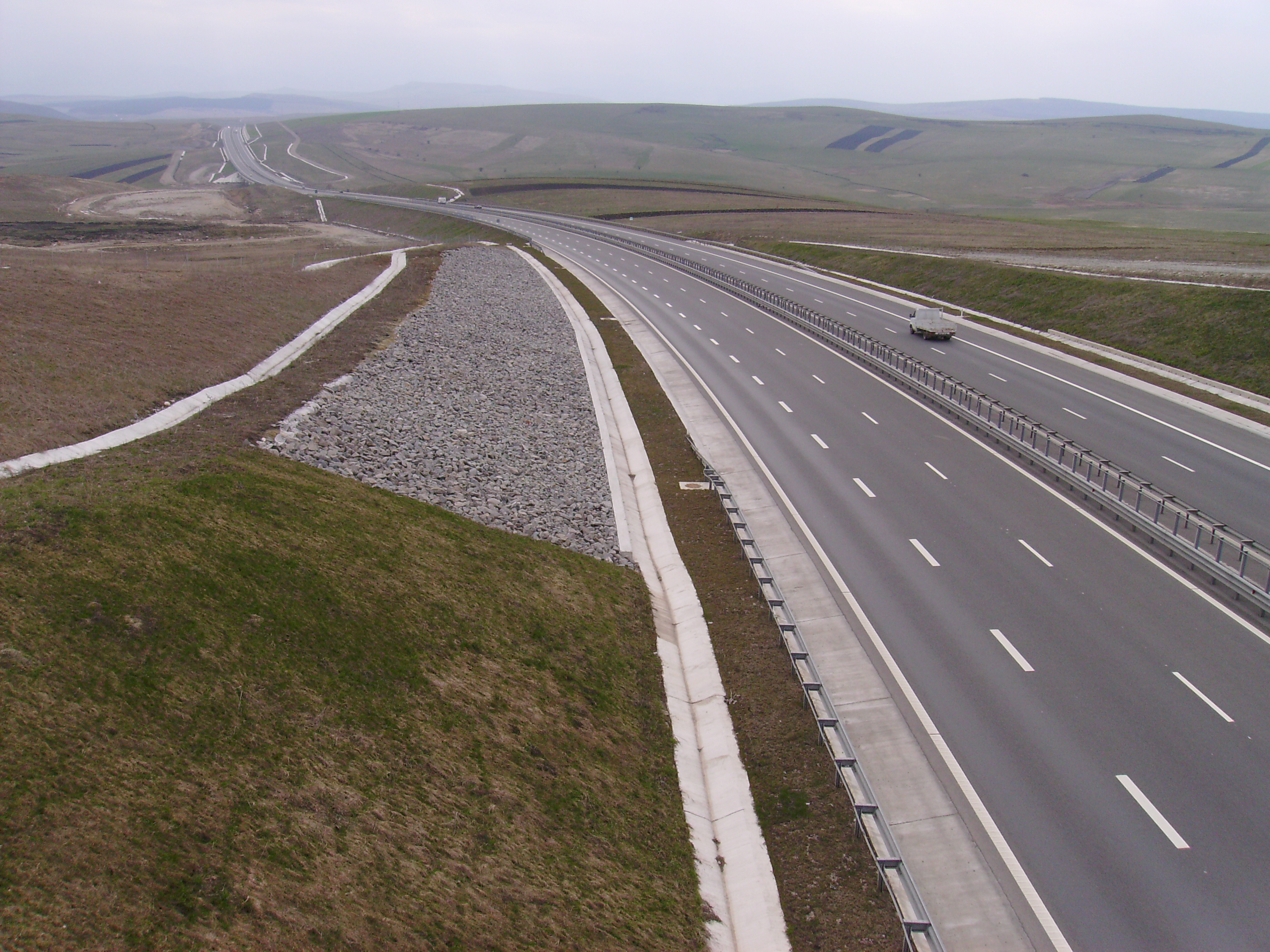 A3 motorway near Cheile Turului, in Transylvania, Romania